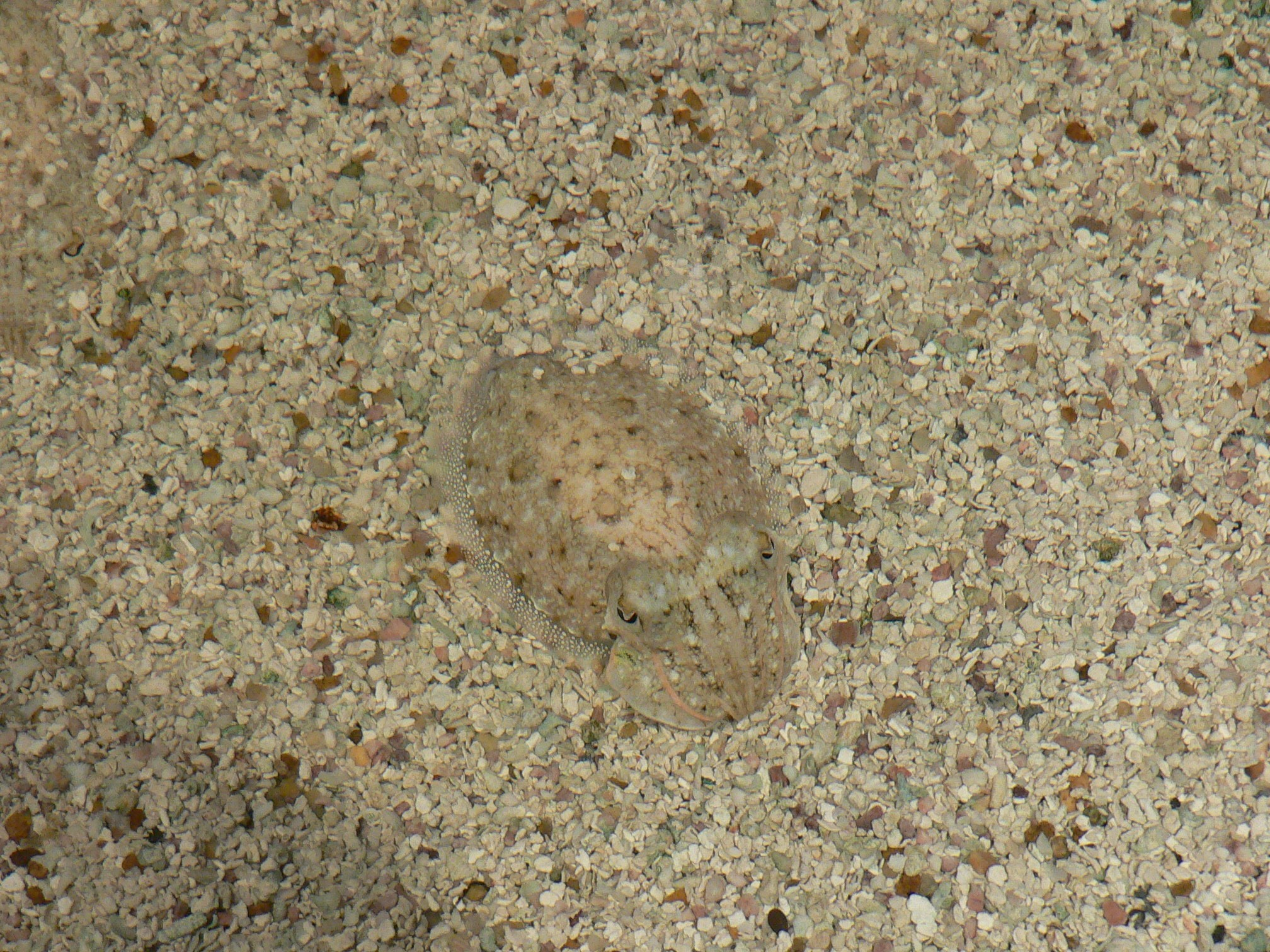 An unidentified infant cuttlefish shows camouflage. Locality: Picture from Disney World.